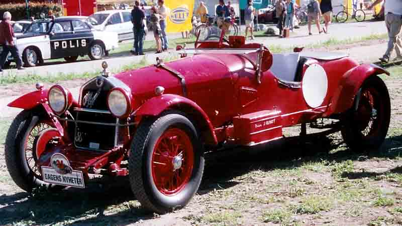 Alfa Romeo 6C 1750 2-Seater Sports 1929